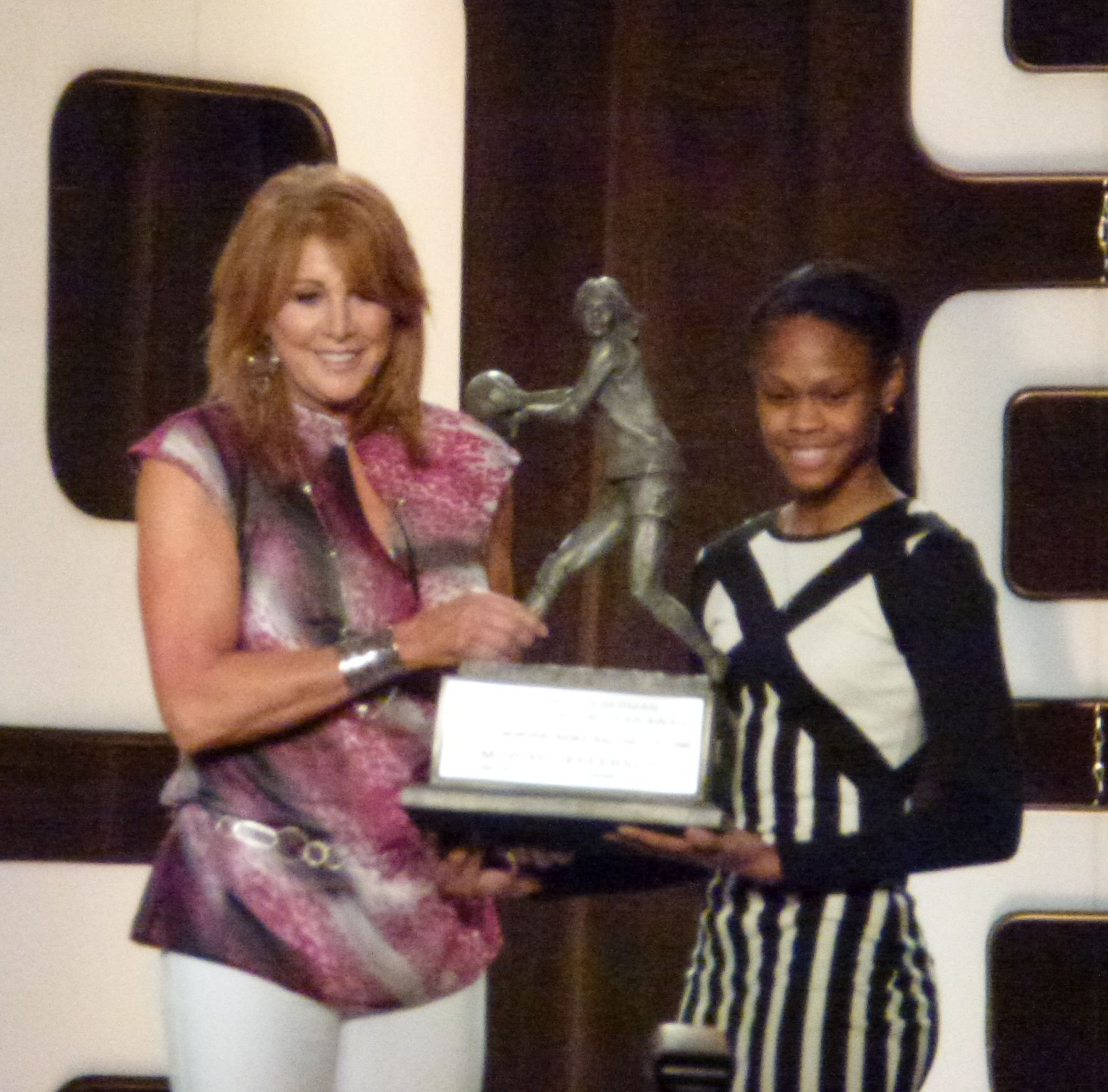 Moriah Jefferson receiving Nancy Lieberman Award at the 2015 WBCA Awards Show